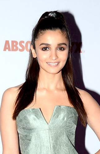 Alia Bhatt at Filmfare Glamour & Style Awards 2016